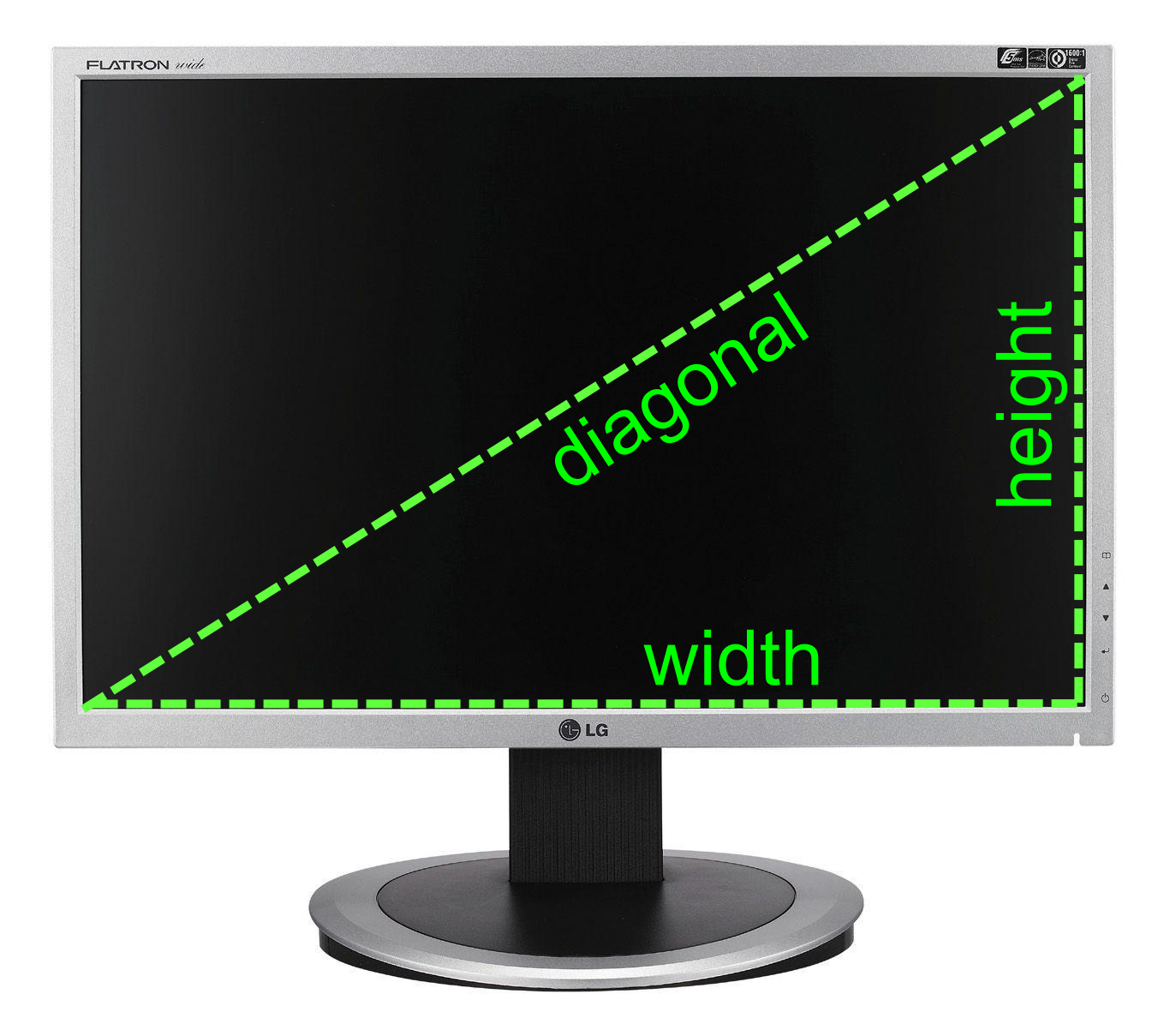 Measurements of two-dimensional display size